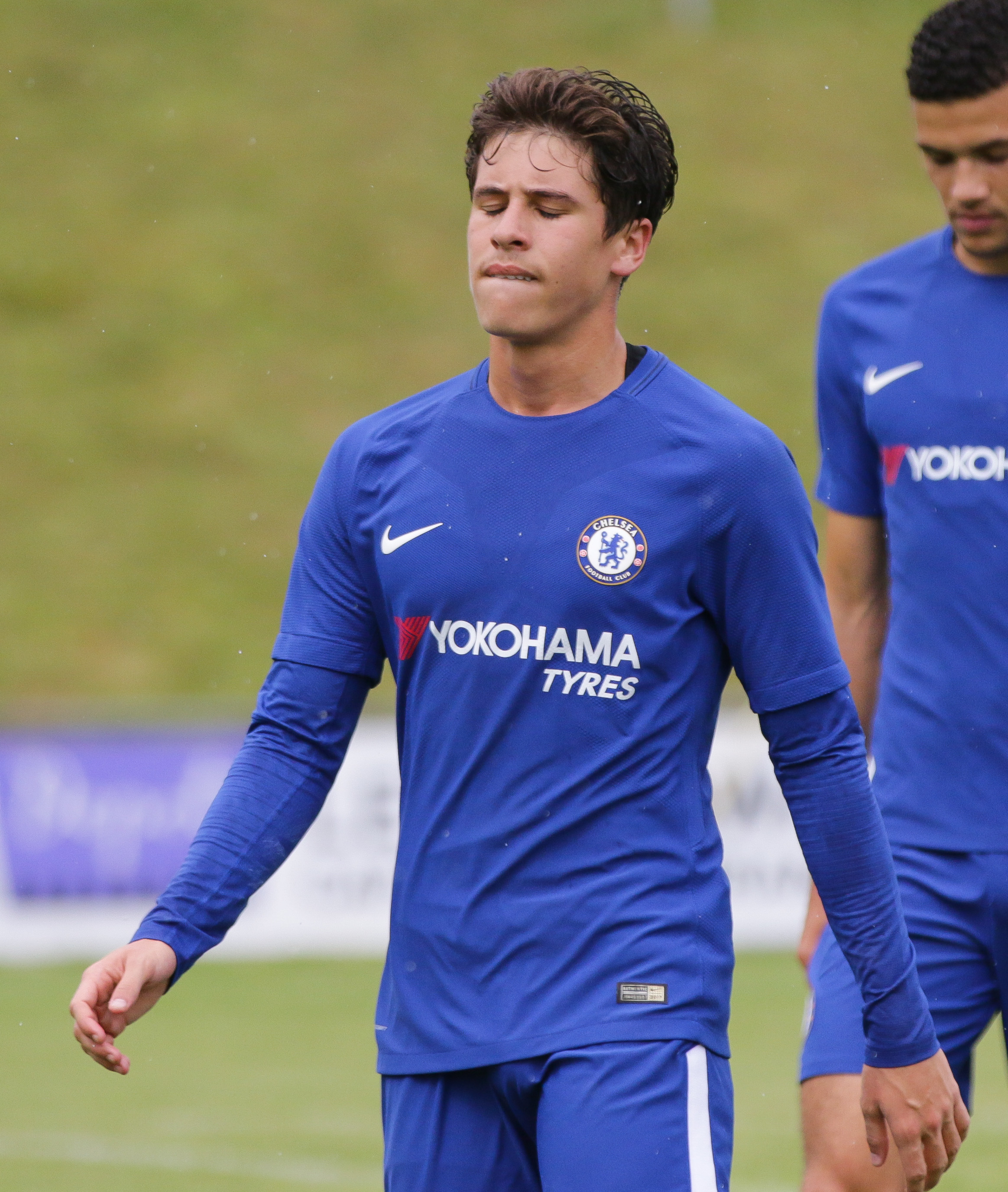 Lewes 0 Chelsea DS 1 Pre Season 22 07 2017-612.jpg